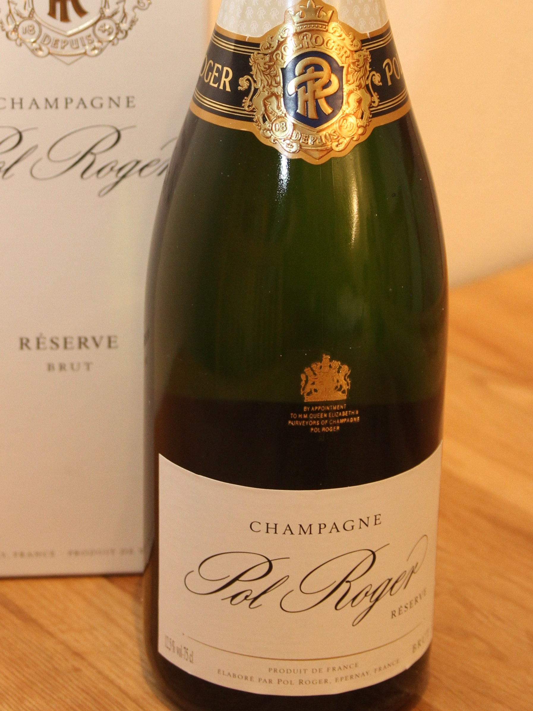 Champagne Pol Roger